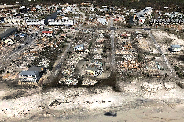 A Coast Guard MH-65 Dolphin aircrew from Air Station Miami assesses the damage of Mexico Beach, Florida, from Hurricane Michael, Oct. 11, 2018. After a storm passes, the Coast Guard focuses on saving lives in the impacted area and responds to hazardous environmental threats. (U.S. Coast Guard photo by Petty Officer 1st Class Colin Hunt)